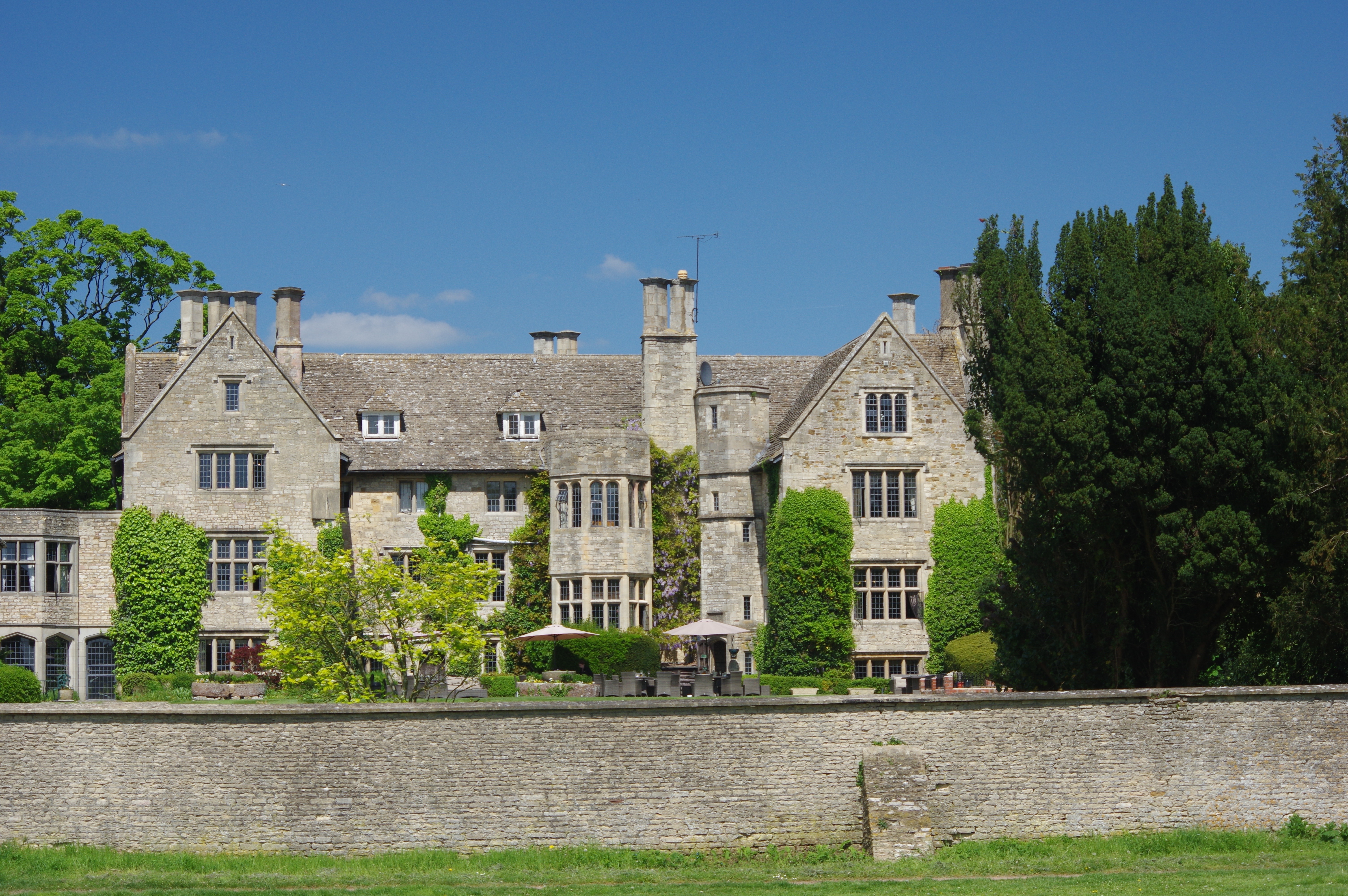 Stonehouse, Stroud, Gloucestershire